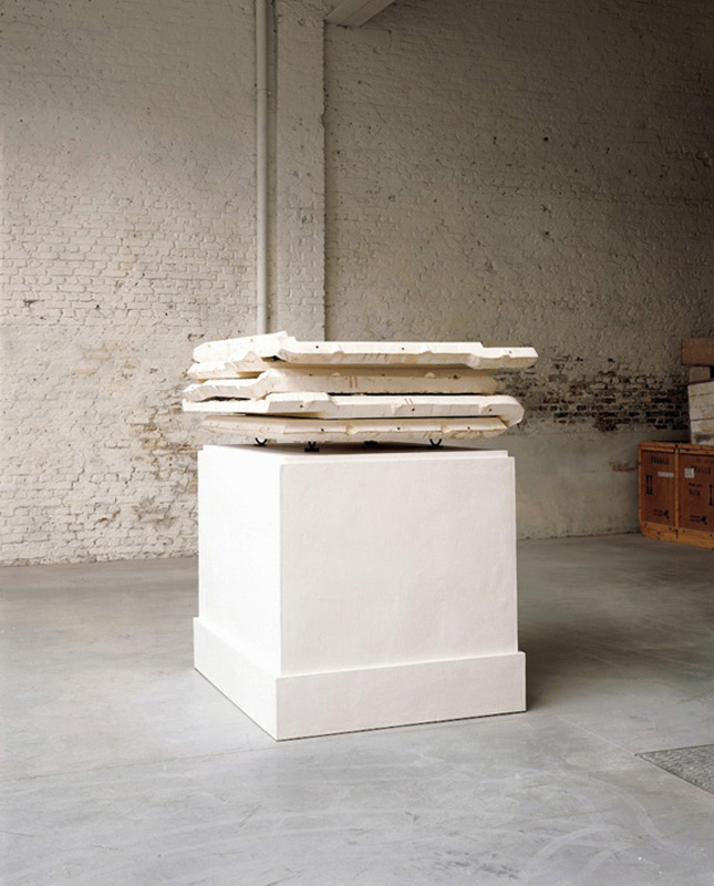 DIDIER VERMEIREN Adam 1995 plaster 146 x 136 x 113 cm Collection Tate Gallery, London